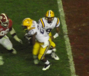 Kenny Hilliard (#27) of the LSU Tigers running the ball after taking the handoff from Jordan Jefferson (#9) from the LSU end zone against the Alabama Crimson Tide defense in the fourth quarter at Bryant–Denny Stadium in Tuscaloosa, Alabama.